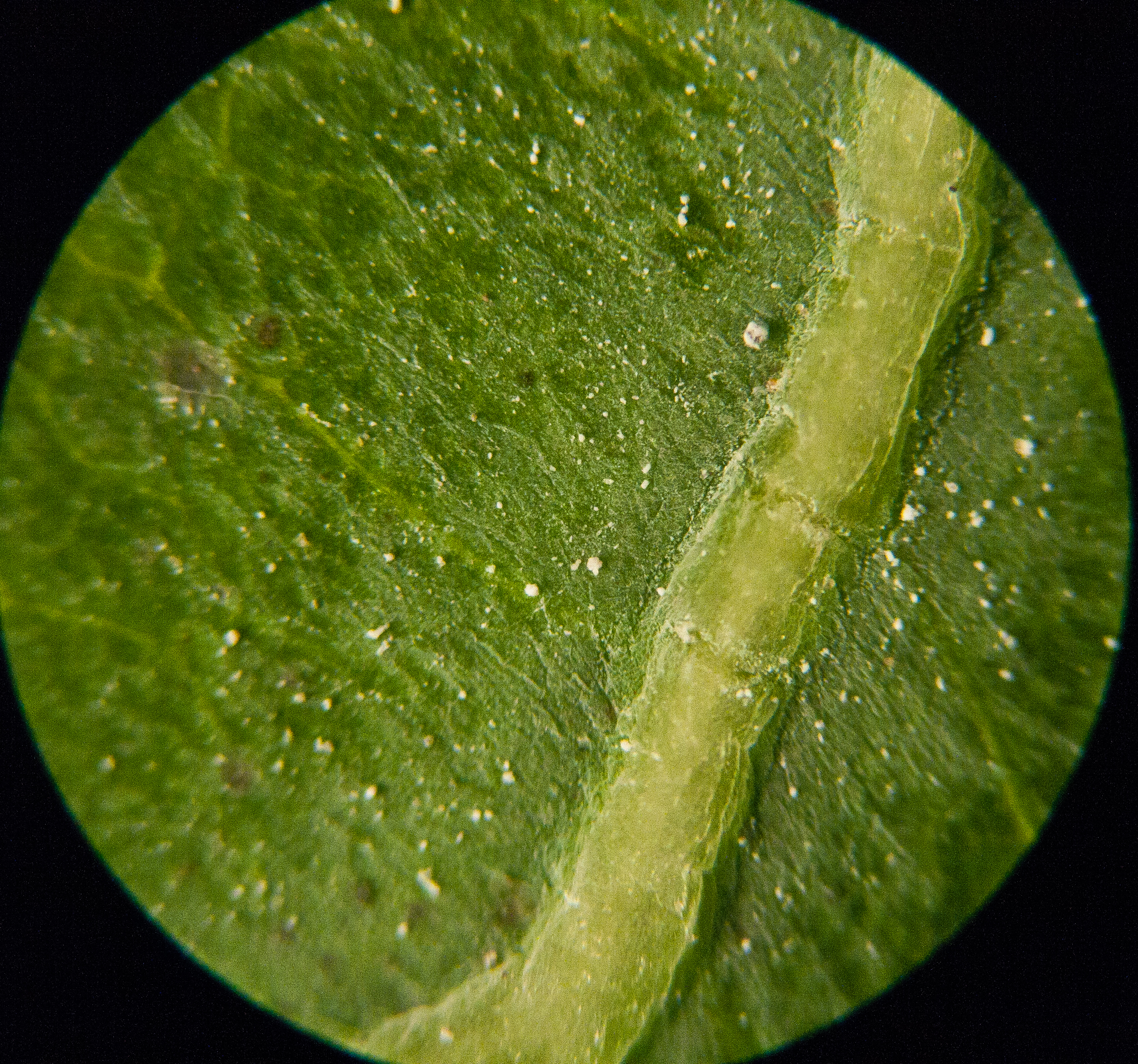 Surface wax deposits, which form the top layer of the cuticle, on the cauliflower (Brassica oleracea var. botrytis) leaf.